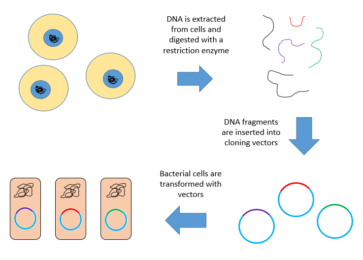 The steps of constructing a genomic library